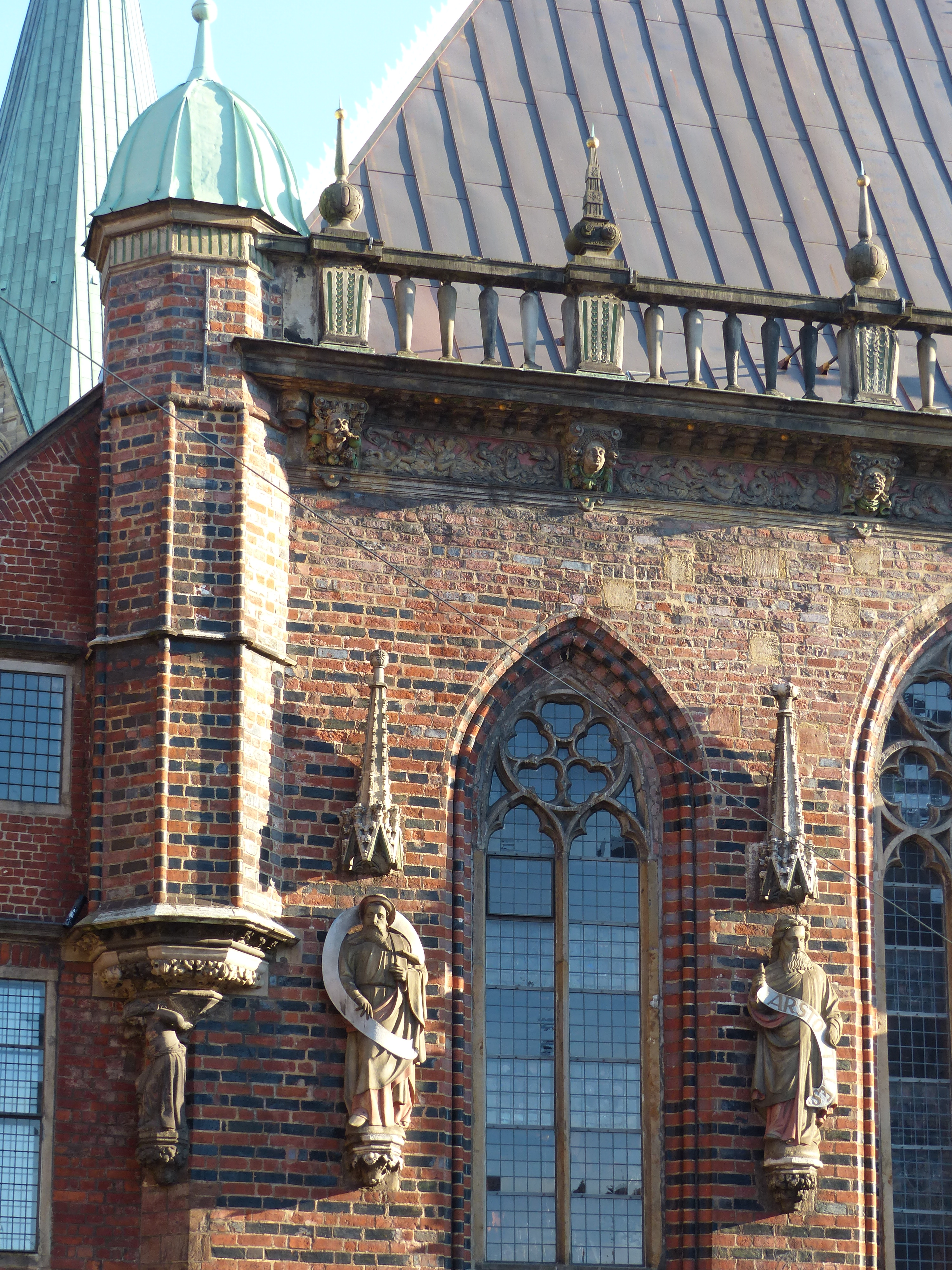 Northeastern corner of the (Gothic) town hall of Bremen with turret, turret porter sculpture and the sculptures of Ezekiel/Platon and Jeremy/Aristoteles (in Renaissance age the prophets would be re-interpreted to Greek philosophers)